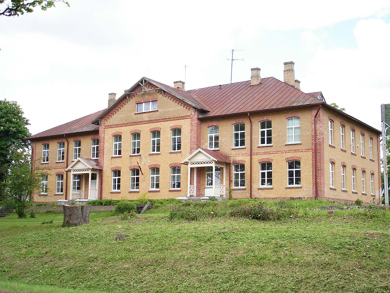 school